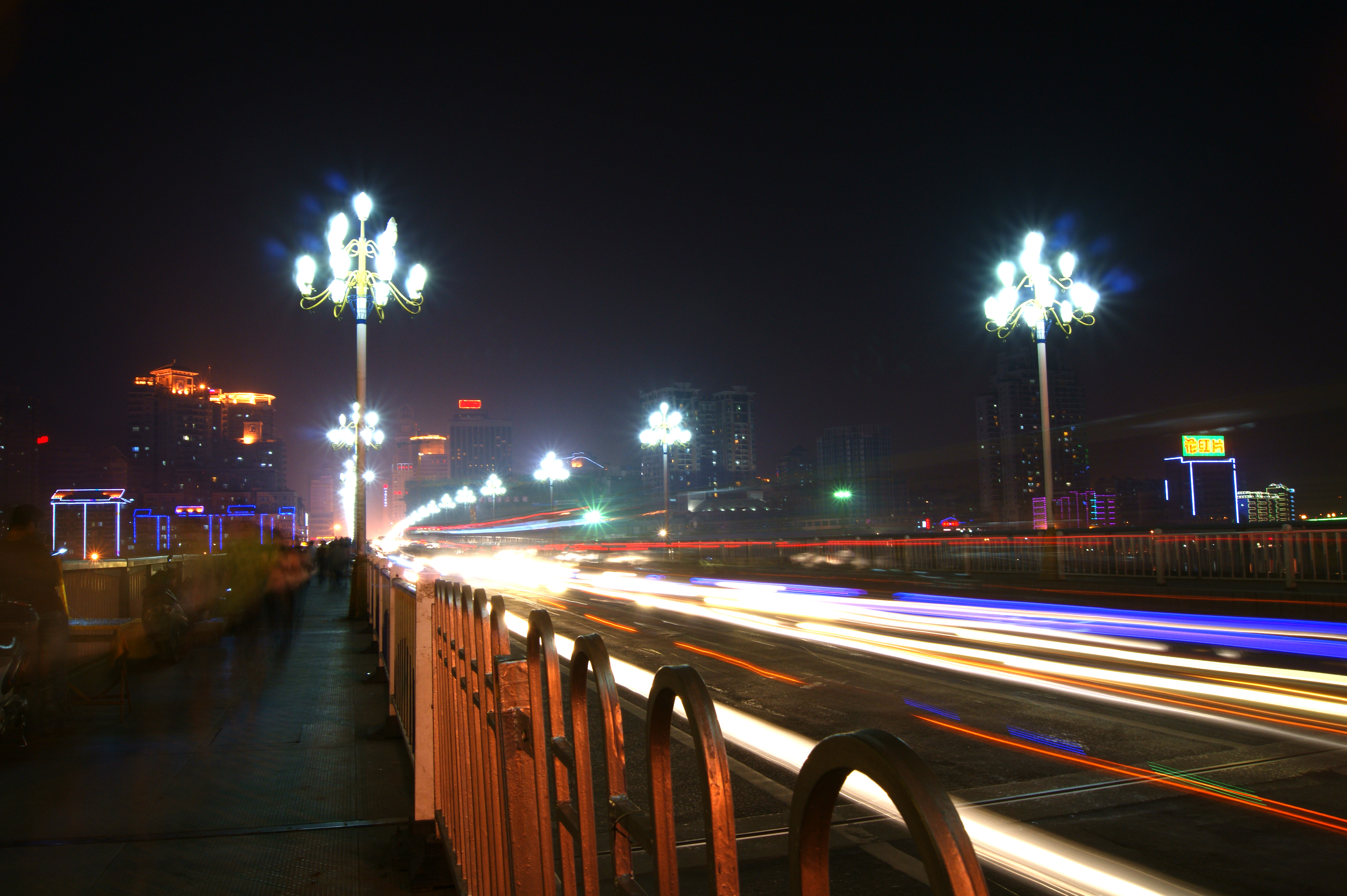 Willow River Bridge at Liuzhou